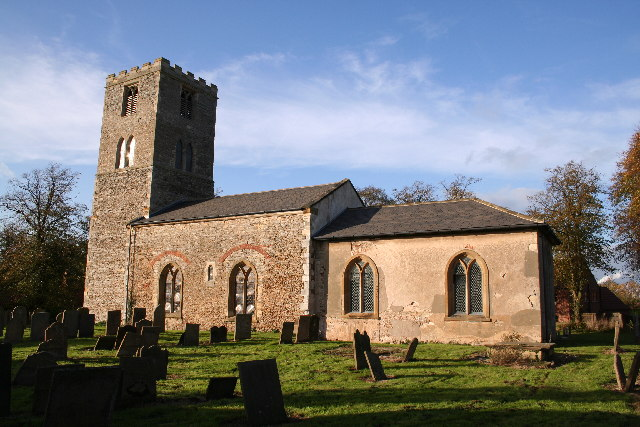 St.Peter's church, Newton on Trent, Lincs. Norman origins but extensively rebuilt.